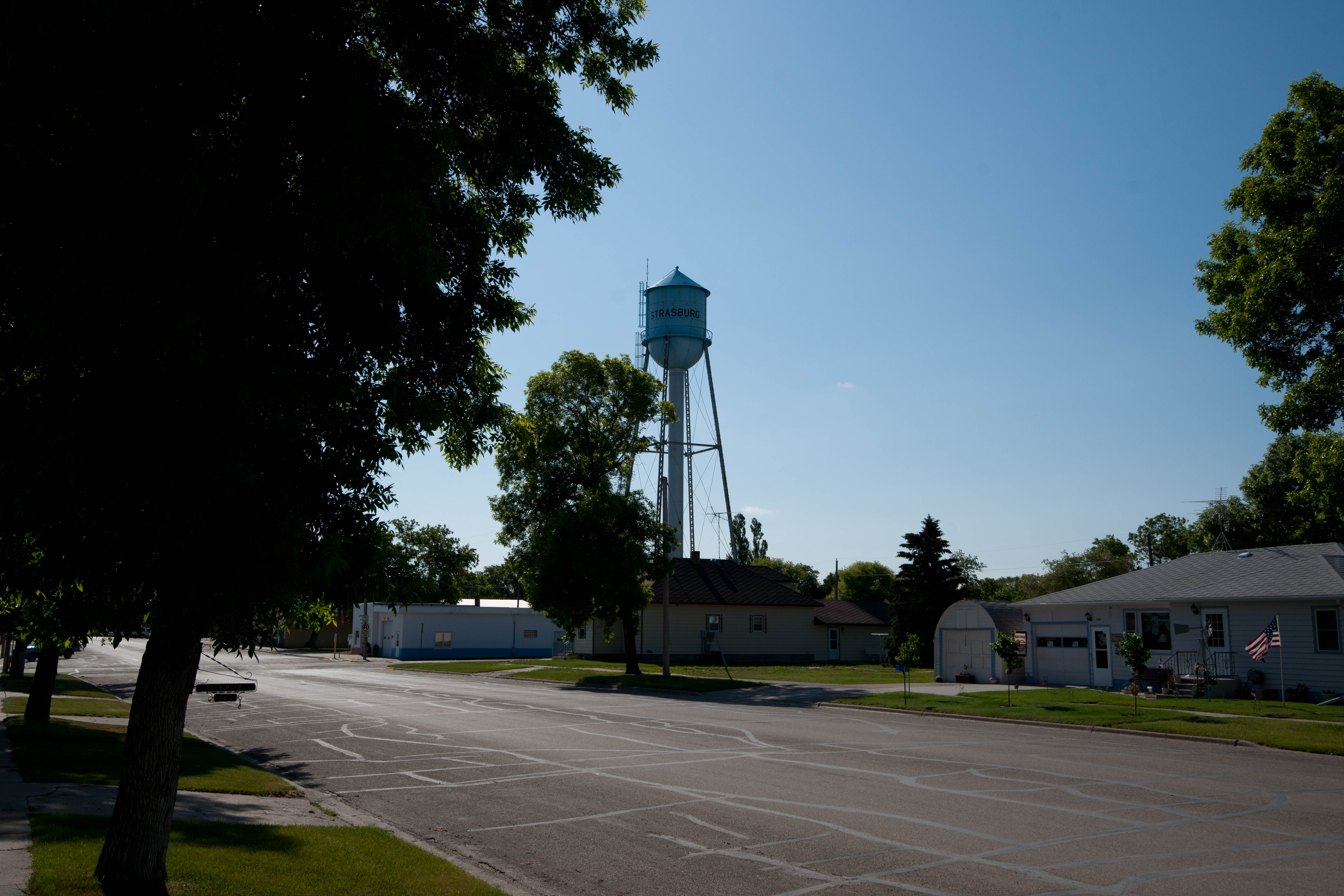 From